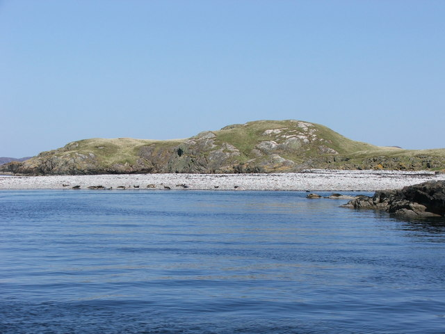 Carn nan Sgeir, 4 km from Achduart, Highland, Great Britain. Seals on the shoreline of Carn nan Sgeir, taken from the MV Summer Queen on the way to the Summer Isles.